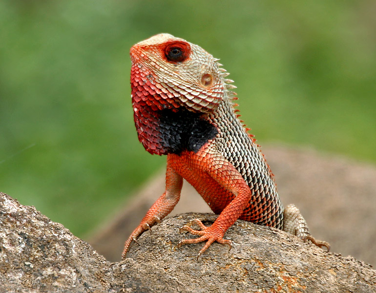 Oriental Garden Lizard or Indian Garden Lizard Calotes versicolor at Pocharam lake, Andhra Pradesh, India.